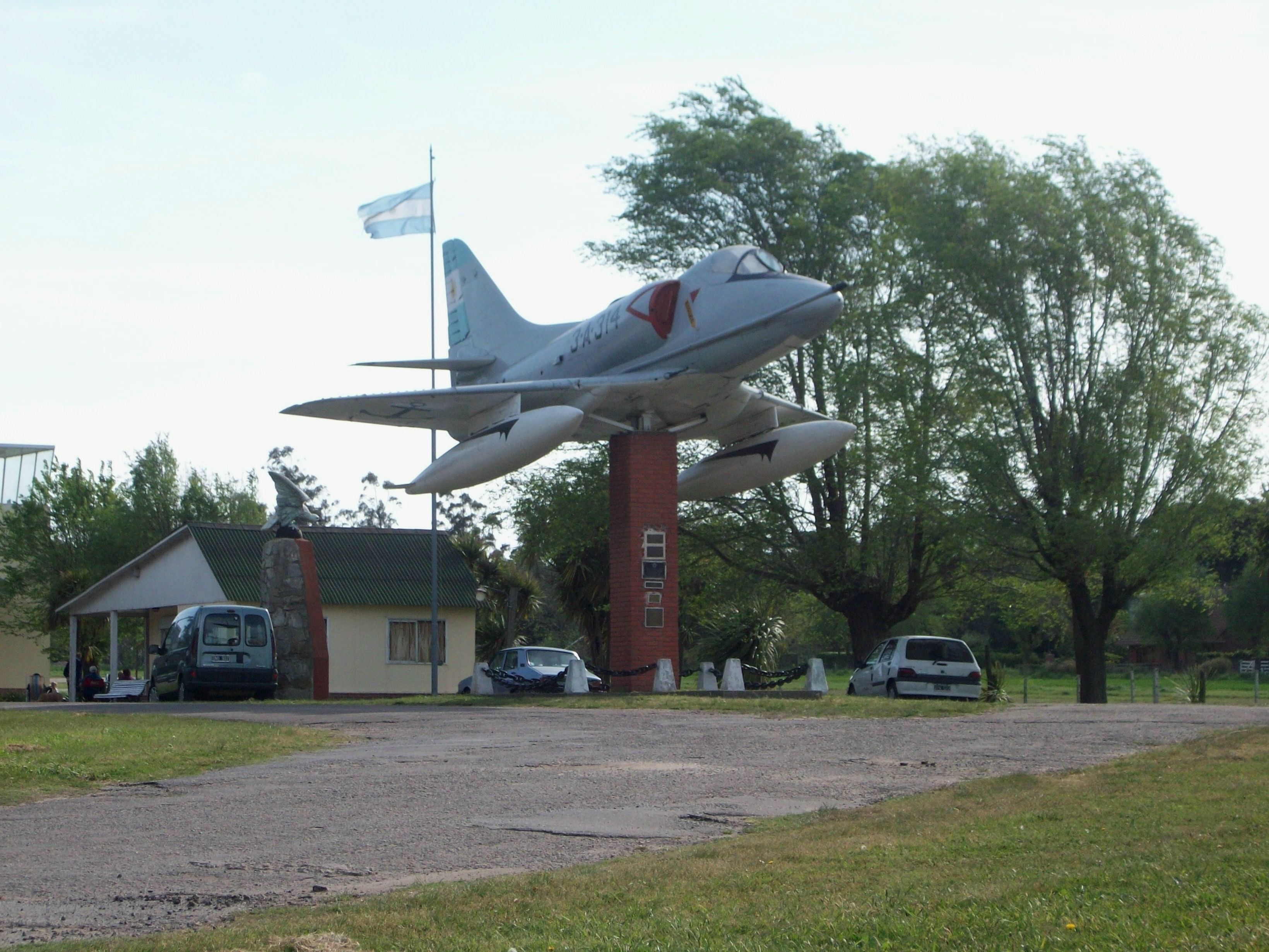 Full scale replica of A4 Skyhawk number A-314, shot down over Falklands Sound after giving the final blow to HMS Ardent, on 21 May 1982. The pilot Lieutenant Marcelo Gustavo Márquez was killed in action. Gates of Air Club Mar del Plata. Márquez had been born in this city and was a distinguished member of that club.